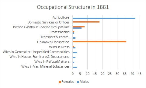 Graph showing the occupational structure of males and females in Glatton in 1881.